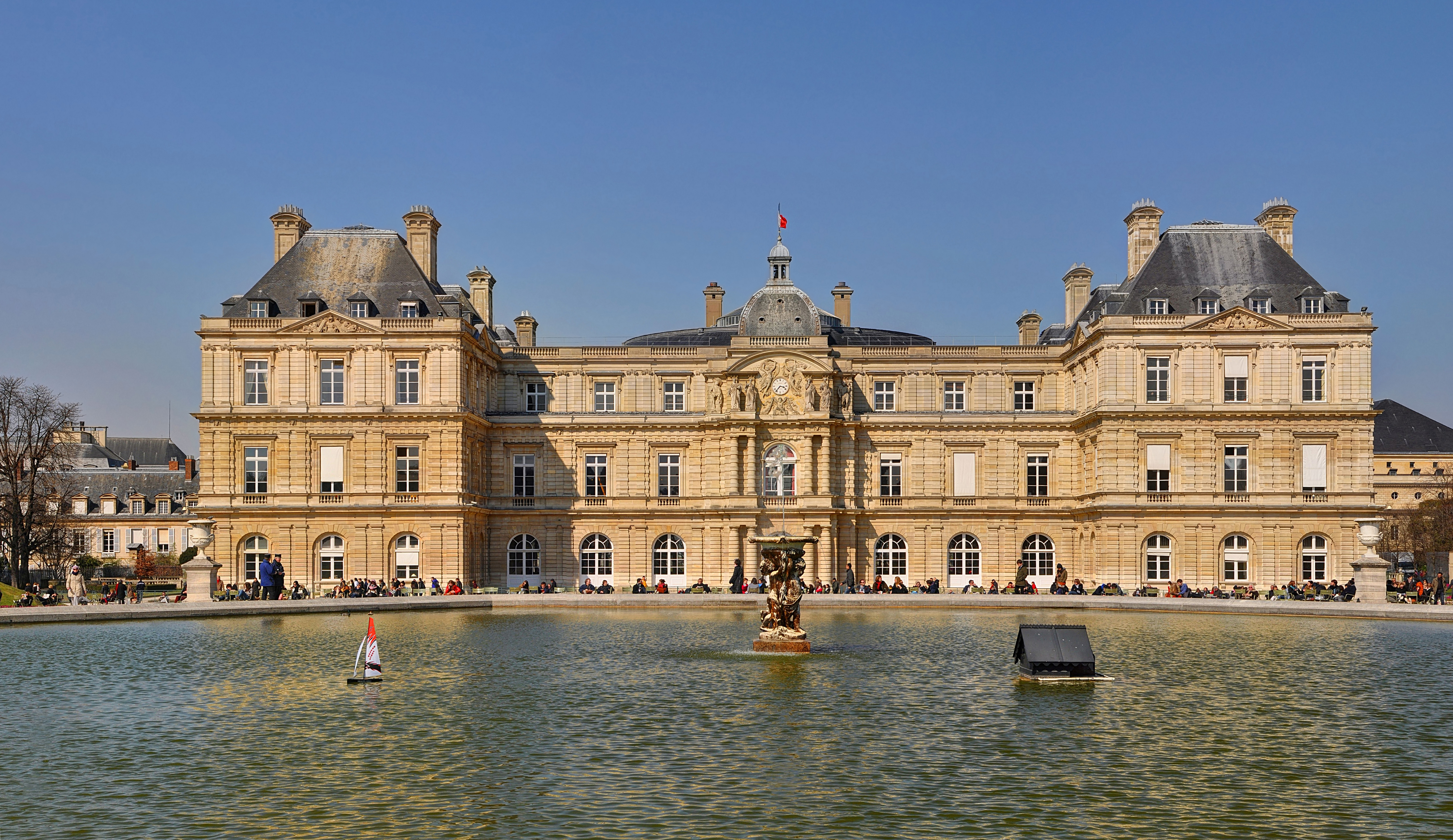 Facade of Palais du Luxembourg in the 6th-arrondissement of Paris, France. The panorama is made by assembling three shots executed in 6 diffrent exposures (HDR).